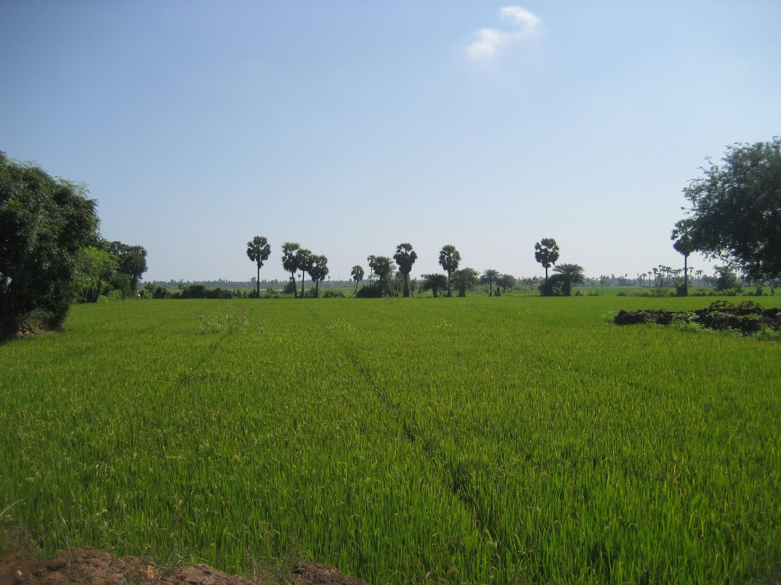 Pakala_prakasam_Paddy_Fields-02